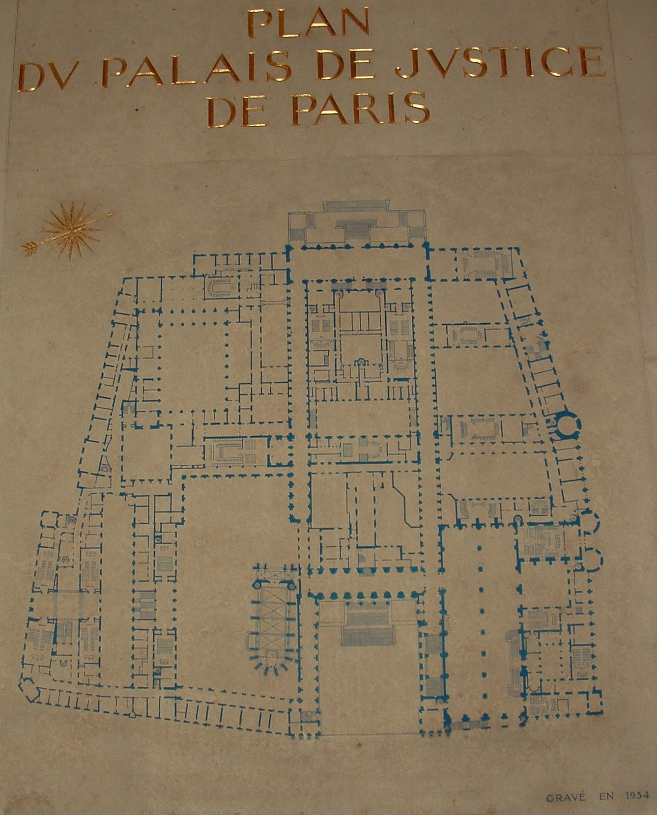 Can be seen in the galery on the right side of the "cour d'honneur"